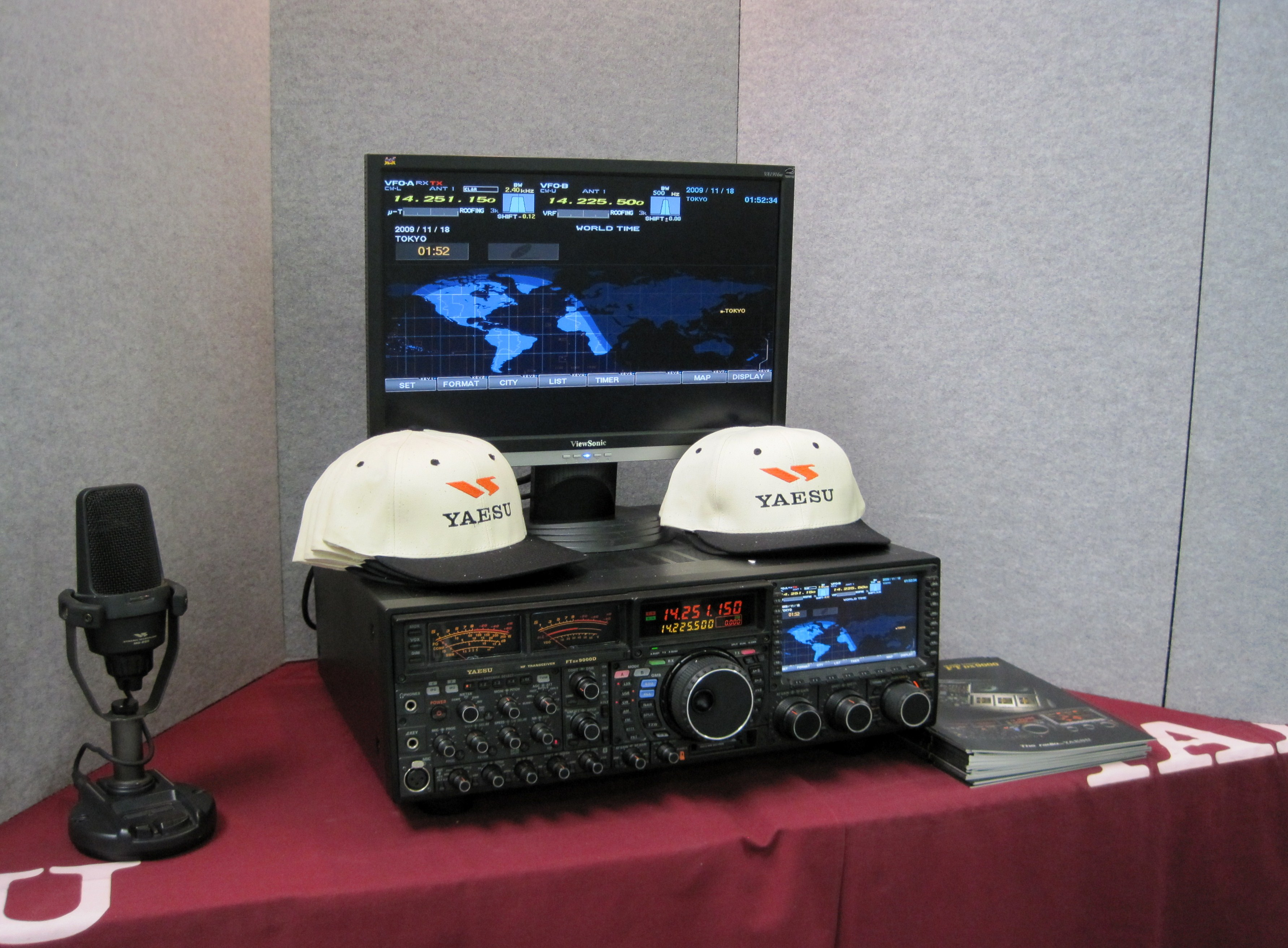 Yaseu FT-DX9000D HF Transceiver plus external display